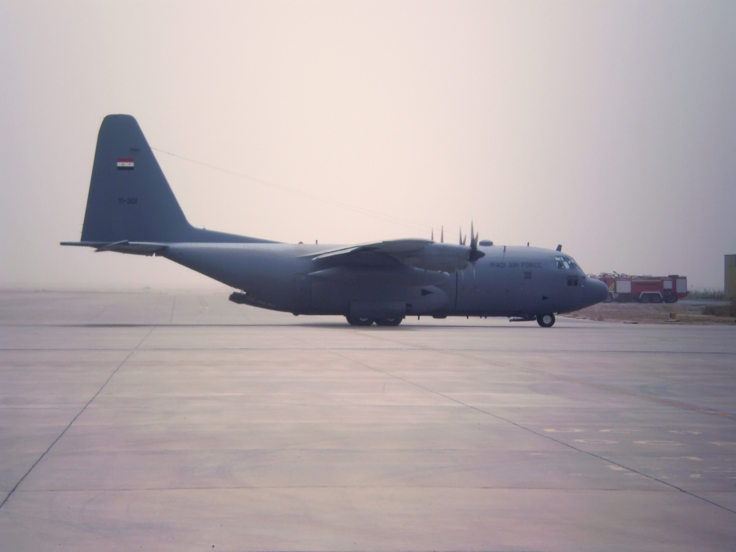 A C-130 Hercules on the flight line at Al Basrah International Airport on May 1, 2005.